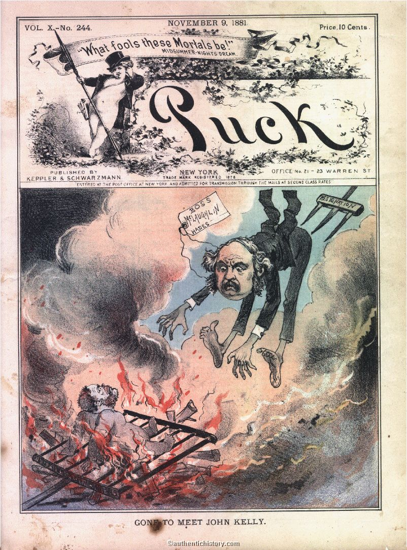 Cover of Puck magazine, November 9, 1881, "Gone to meet John Kelly", figure identified as "Boss McLaughlin" (Hugh McLaughlin, a political boss)